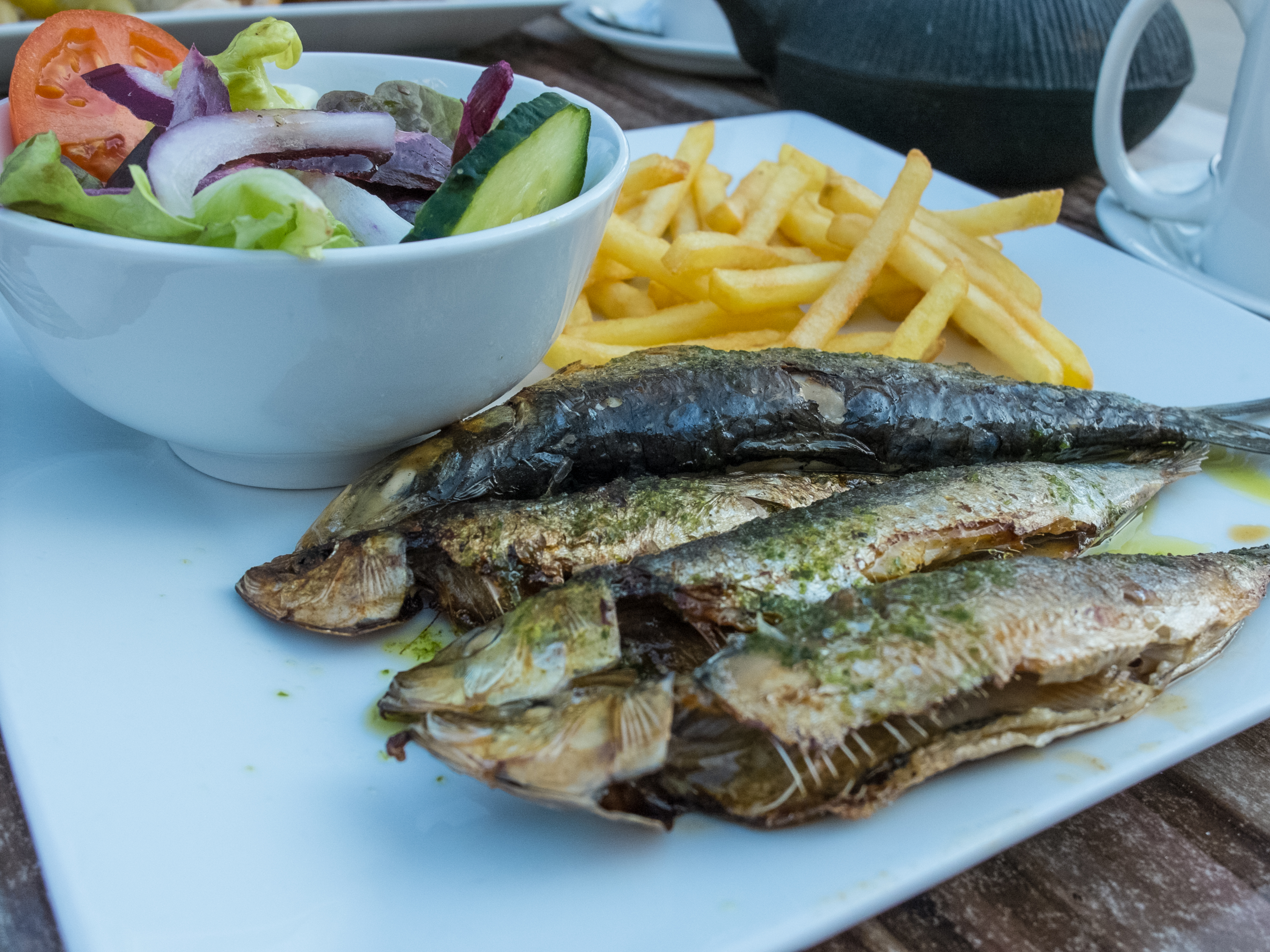 Food in Mallorca - before